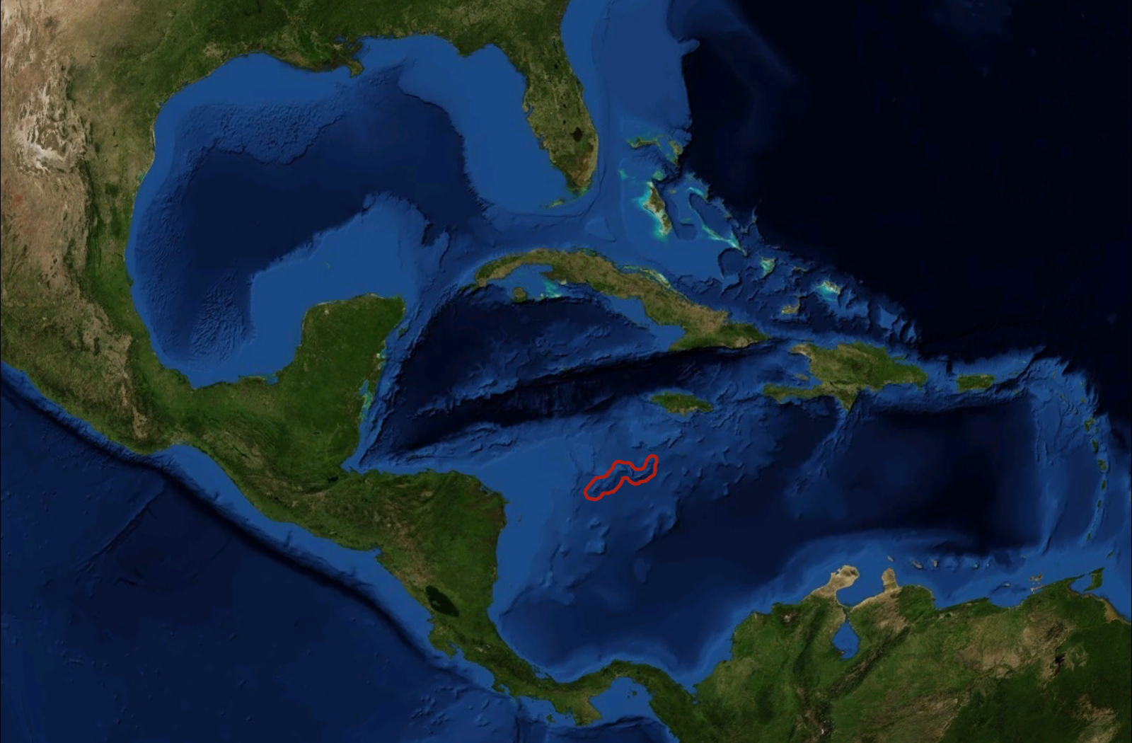 Satellite picture of Caribbean Sea with location of Serranilla Bank marked, from NASA World Wind Globe, version 1.4